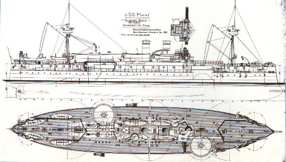 Floor deck plan of the "Maine", showing its turret placement